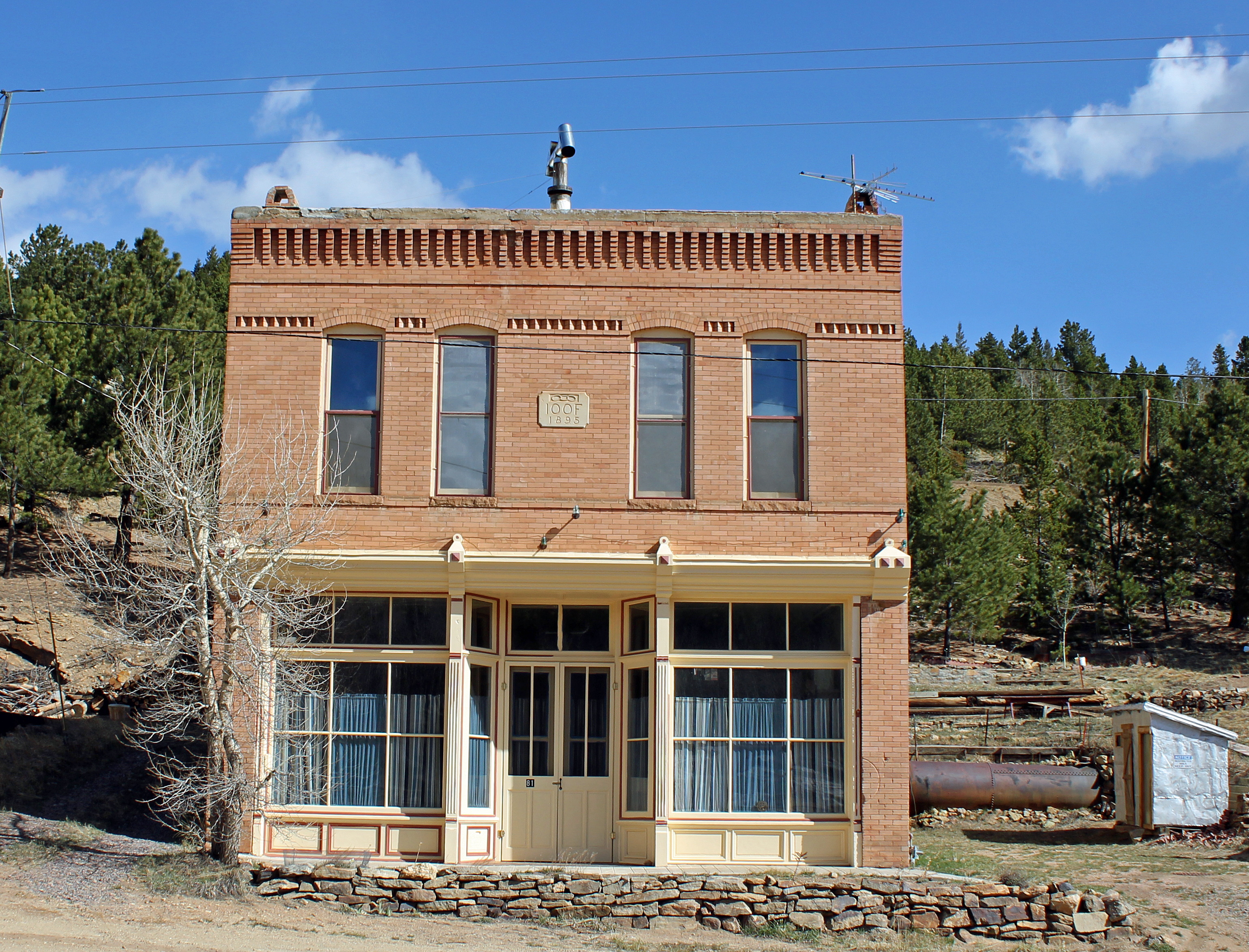 The Russell Gulch I.O.O.F. Hall No. 47--Wagner and Askew, located at 81 Russell Gulch Road in Russell Gulch, Colorado. The property is listed on the National Register of Historic Places.